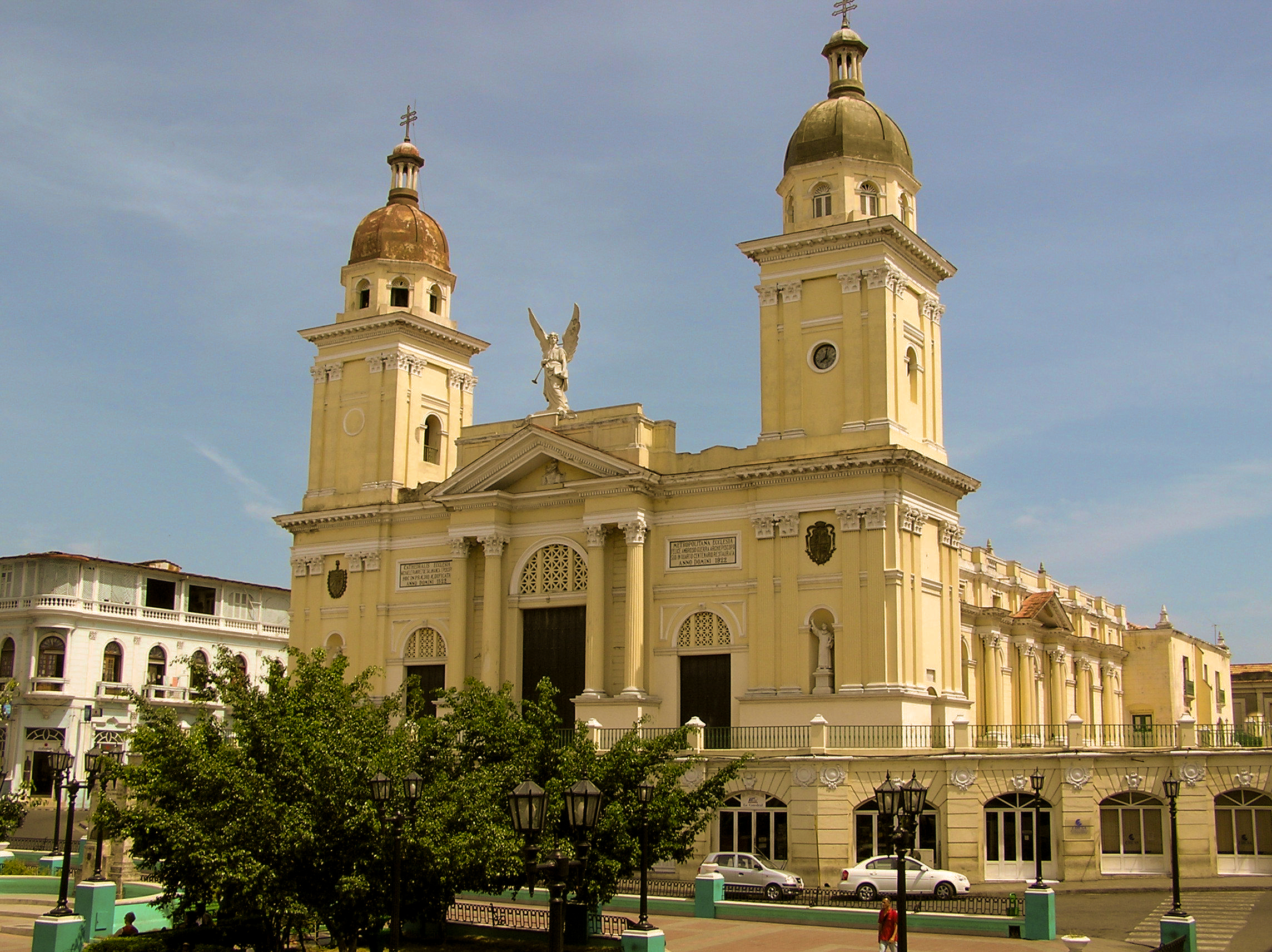 Neoclassical church facade of the colonial era Catedral Nuestra Señora de la Asunción — in Santiago de Cuba, southeastern Cuba.